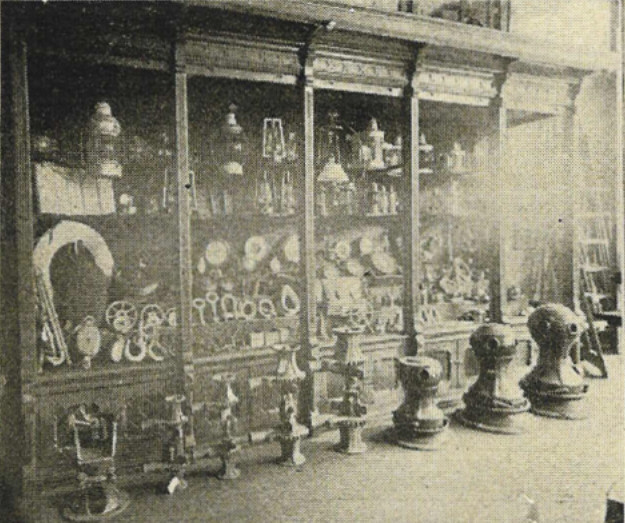 "Ship chandler's dept. of Seattle Hdwr. Co." from the brochure Seattle and the Orient (1900). Seattle Hardware Co. had several buildings over the years. This would not be the seven storey building at First Avenue South and South King Street (built 1904–1905; that building survives as of 2007; the company does not); some details in Image:Seattle Hardware Co. - 1900.jpg make it clear that this is the building at 819-823 First Avenue mentioned in the caption of Downtown Seattle looking north from James Street, Seattle, ca. 1900 in the University of Washington Libraries Digital Collections.